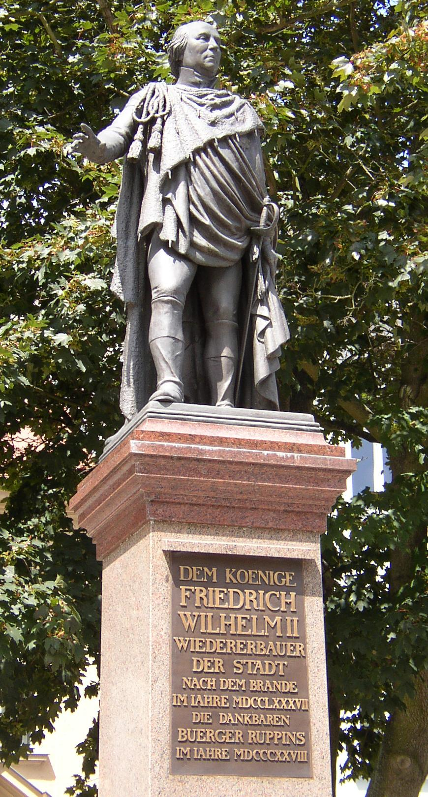 Statue of Friedrich Wilhelm II in Neuruppin in Brandenburg, Germany, sculpted by Christian Friedrich Tieck in 1821, destroyed in 1947. This is a copy of 1998